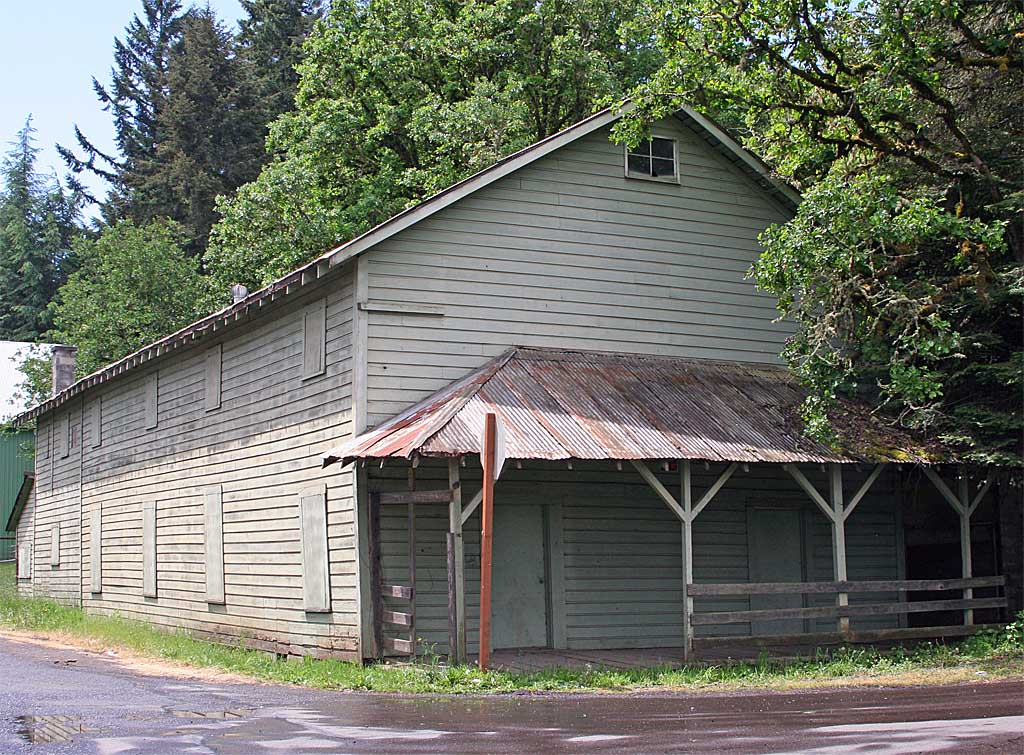 The former grange hall at Saginaw, Oregon